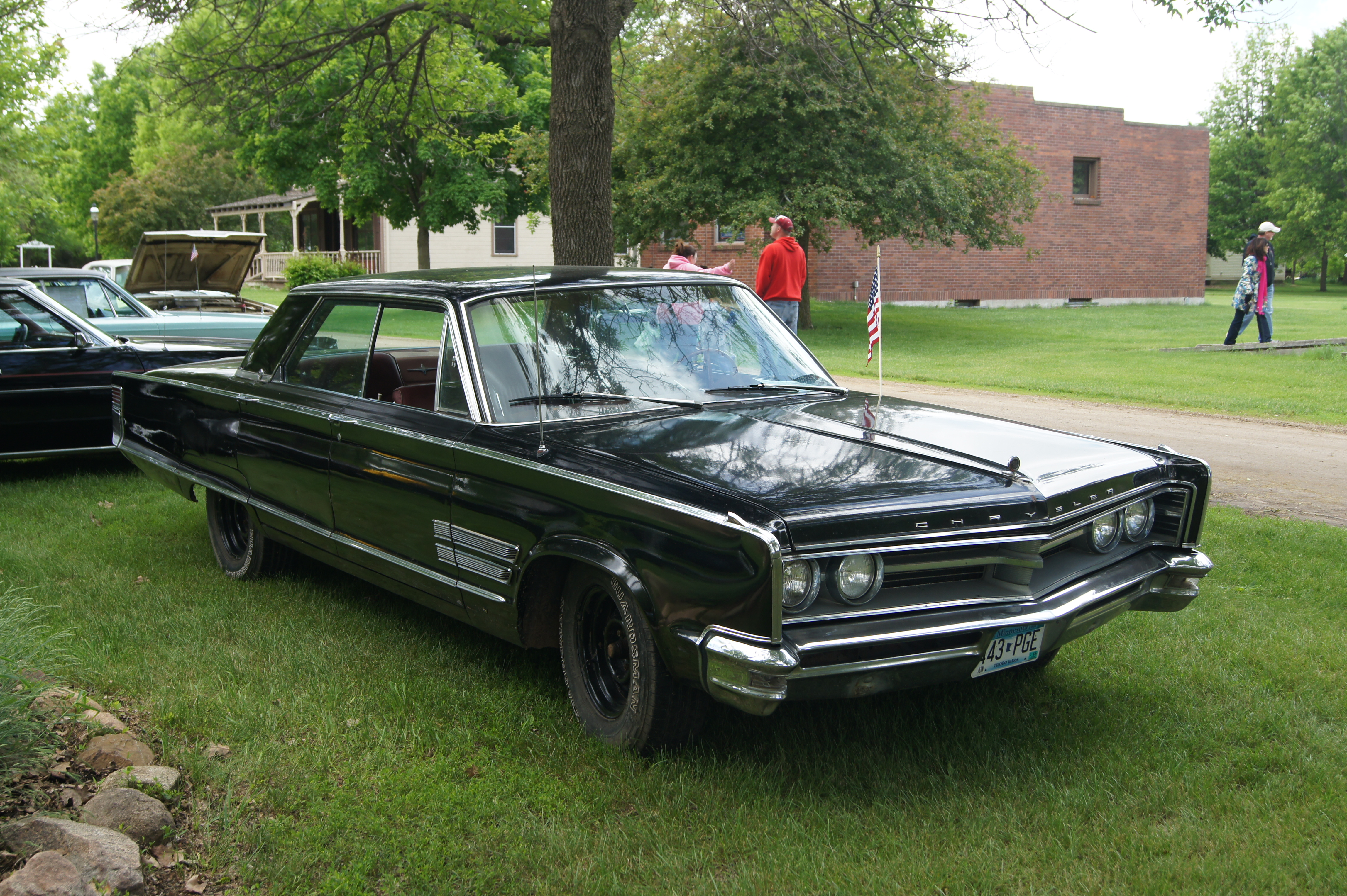 Midwest Mopars in the Park National Car Show & Swap Meet Dakota County Fairgrounds Farmington, Minnesota May 30 & 31, 2015 Click here for more car pictures at my Flickr site.